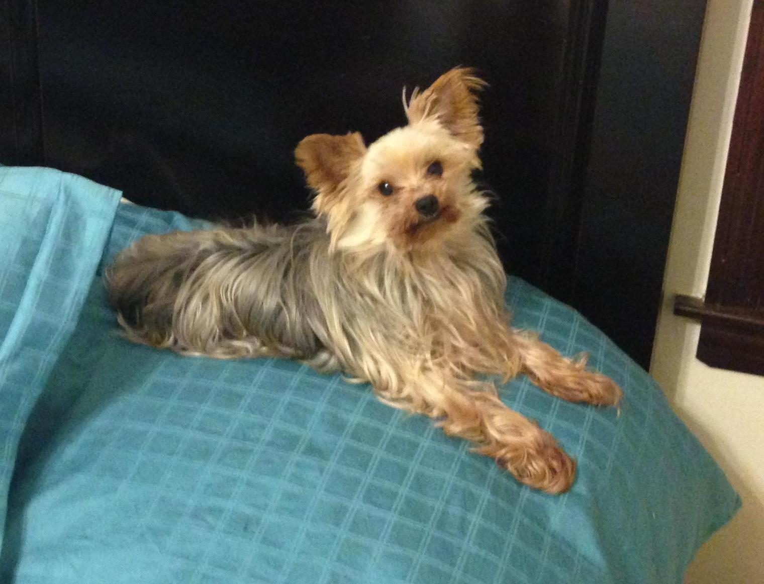 A Yorkshire Terrier resting on a pillow